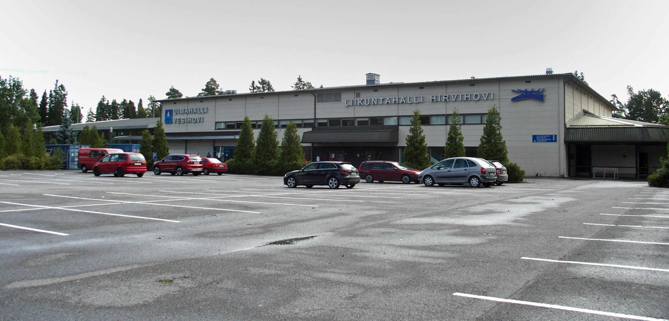 Hirvihovi sports centre and Vesihovi indoor swimming pools in Hirvikoski, Loimaa, Finland